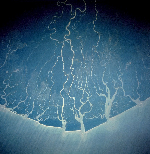 NASA Space Shuttle Overflight photo of the Niger Delta